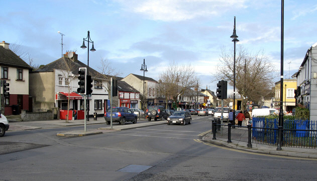 Main Street, Swords, County Dublin, Ireland